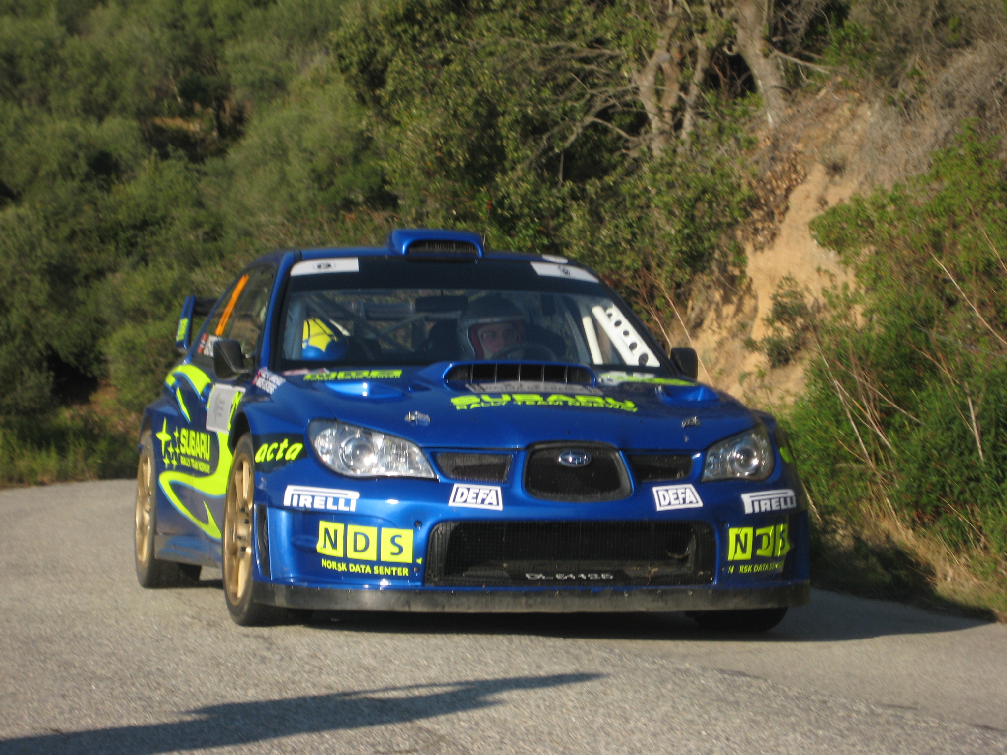 2008 Rallye de France, Day 2-SS12, Mads Ostberg - Subaru Impreza WRC